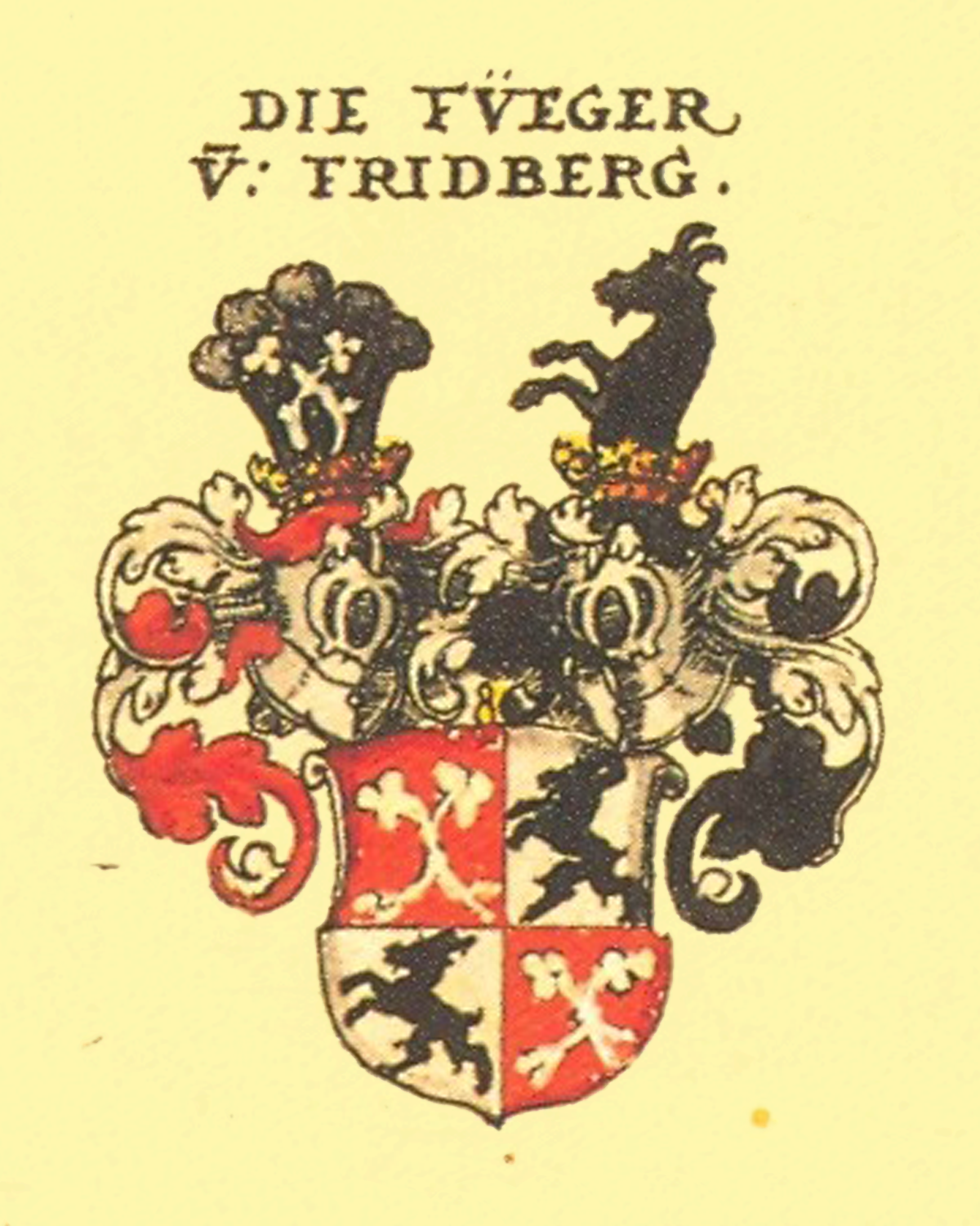 Coat of arms of Fieger von Friedberg